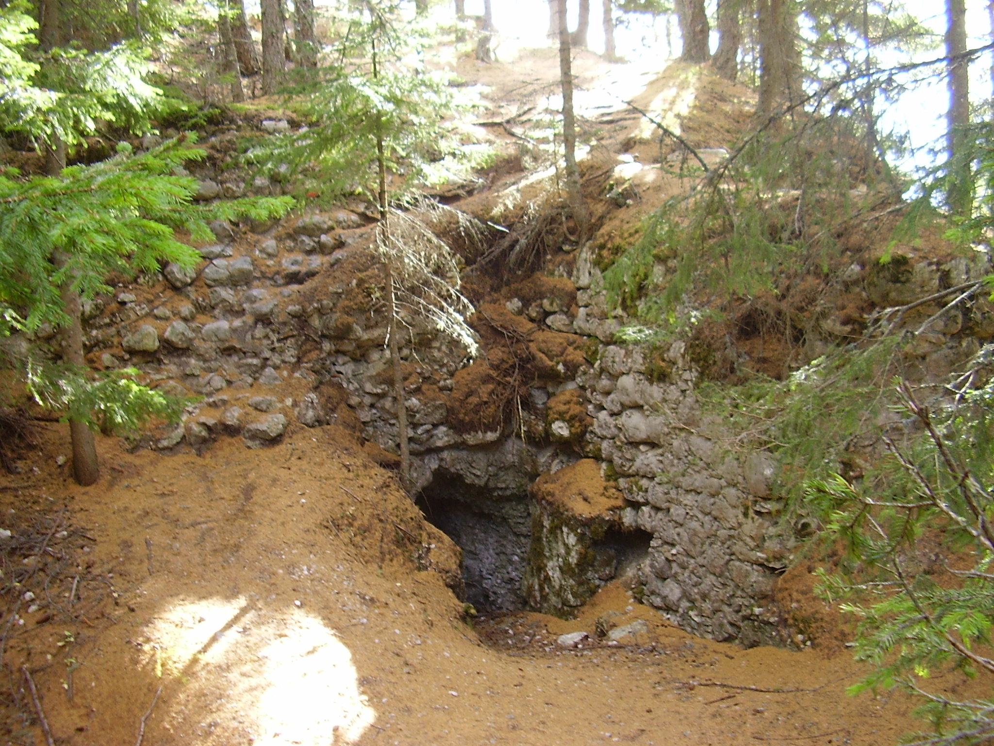 Rouins of Botestagno Castel near Cortina d'Ampezzo (Italy)